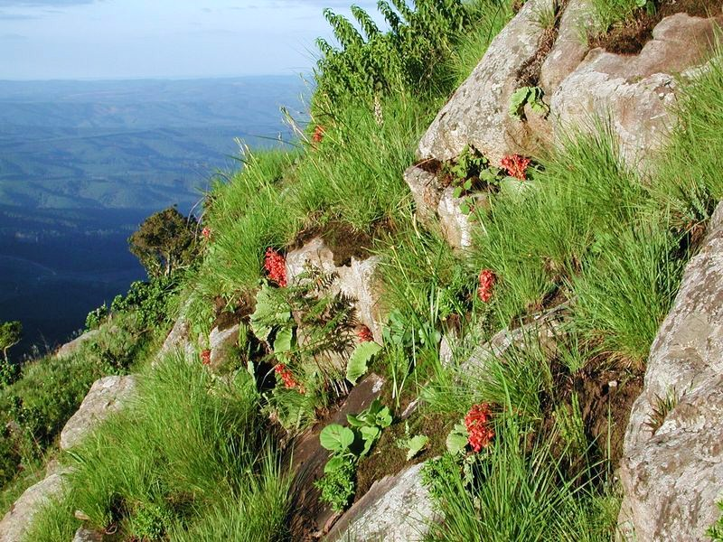 Streptocarpus dunii landscape